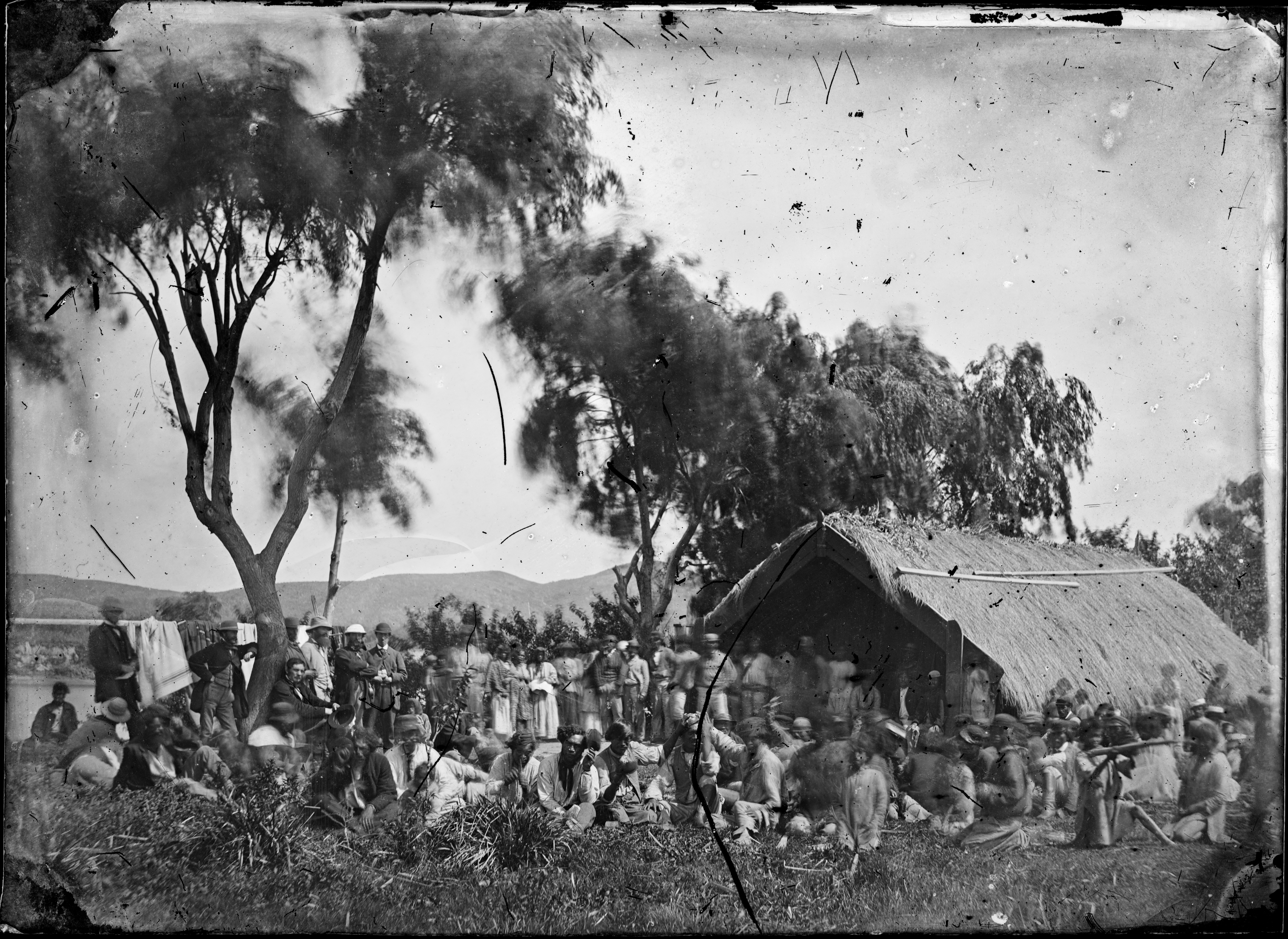 Donald McLean, Superintendent of Hawkes Bay (seated by tree on left, hat in hand), purchasing land for the town of Wairoa. Taken, probably by Charles H Robson, in 1865.